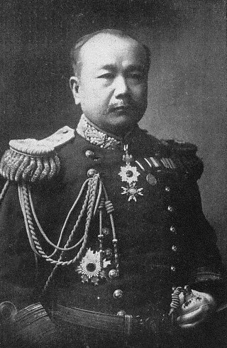 Kaneyuki Kimotsuki